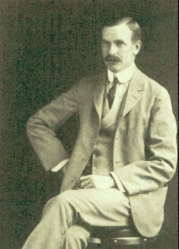 Crawford Hill, likely taken around the turn-of-the-century. He did in 1922